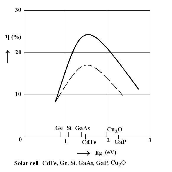 Solar cell CdTe, Ge, Si, GaAs, Cu2O, GaP.